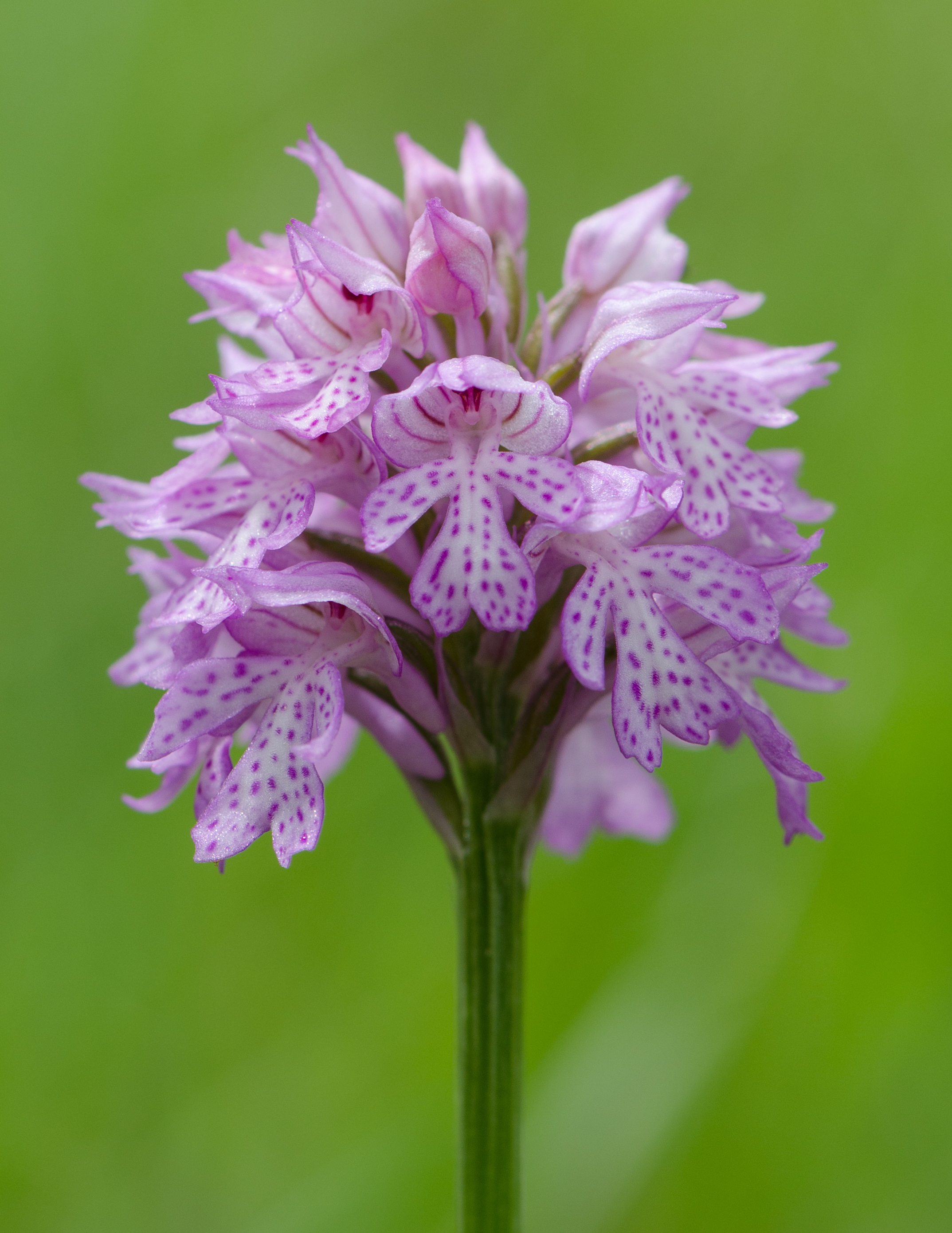 Orchis tridentata (Three-toothed orchid)